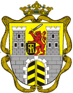 Coat of arms of Terezín